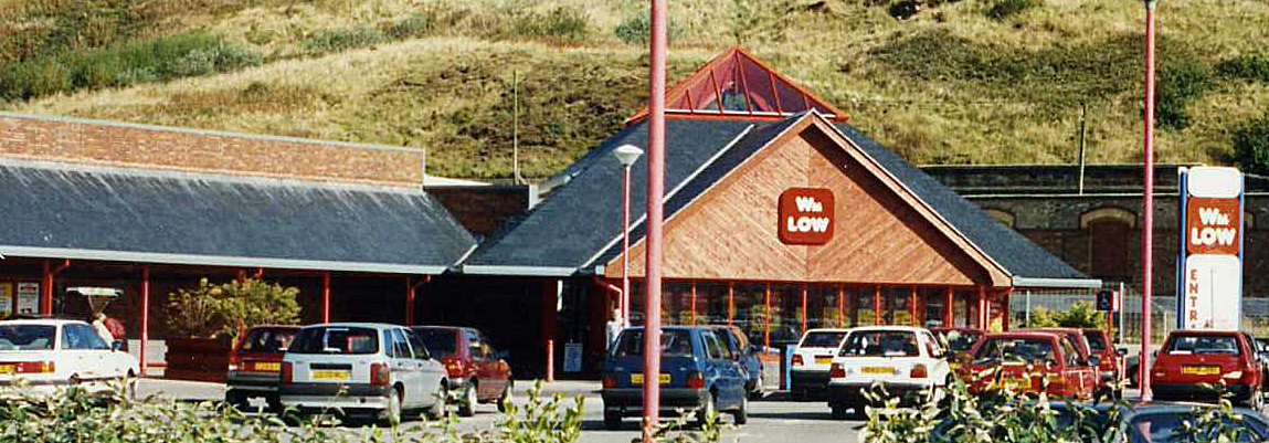 Front entrance of a Wm Low supermarket in Whitehaven, September 1994 (shortly after the chain was bought by Tesco plc). (Cropped detail from a larger photograph).